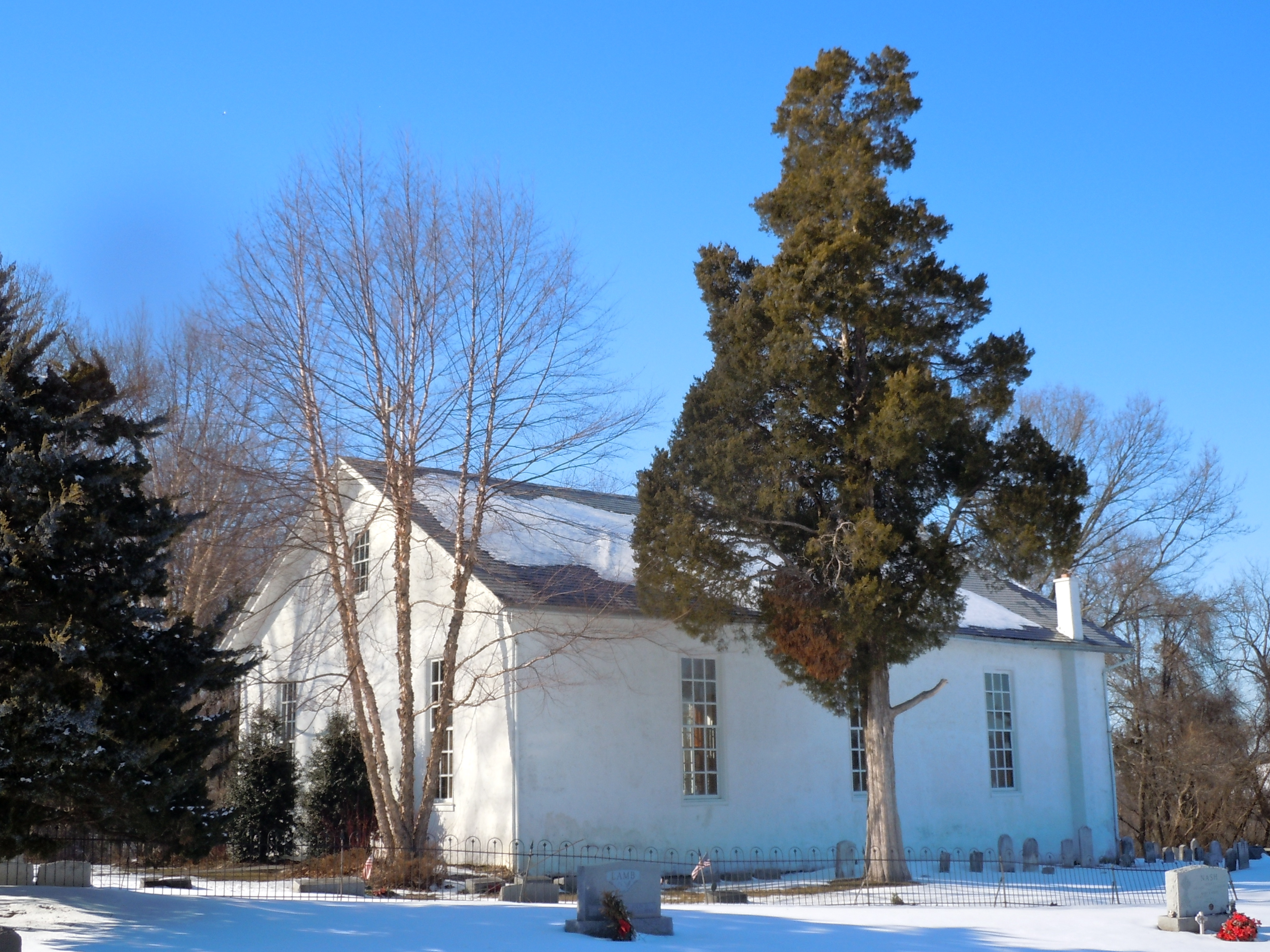 St. Malachi Church on the NRHP since September 16, 1985. On St. Malachi Road, Londonderry Township, Chester County, Pennsylvania. This is a Roman Catholic Church (reportedly a subdivision of the RC Church in Parkesville, PA) and is notable for it's lack of ornamentation (there is a cross on the roof but its not visible) It is located in the heart of old Quaker Country, but its simplicity seems to out-do even the simplest Quaker meetinghouse. Current church dates from 1838, the earliest tombstone in the cemetery bears the date 1771. Irish settled here about that time.